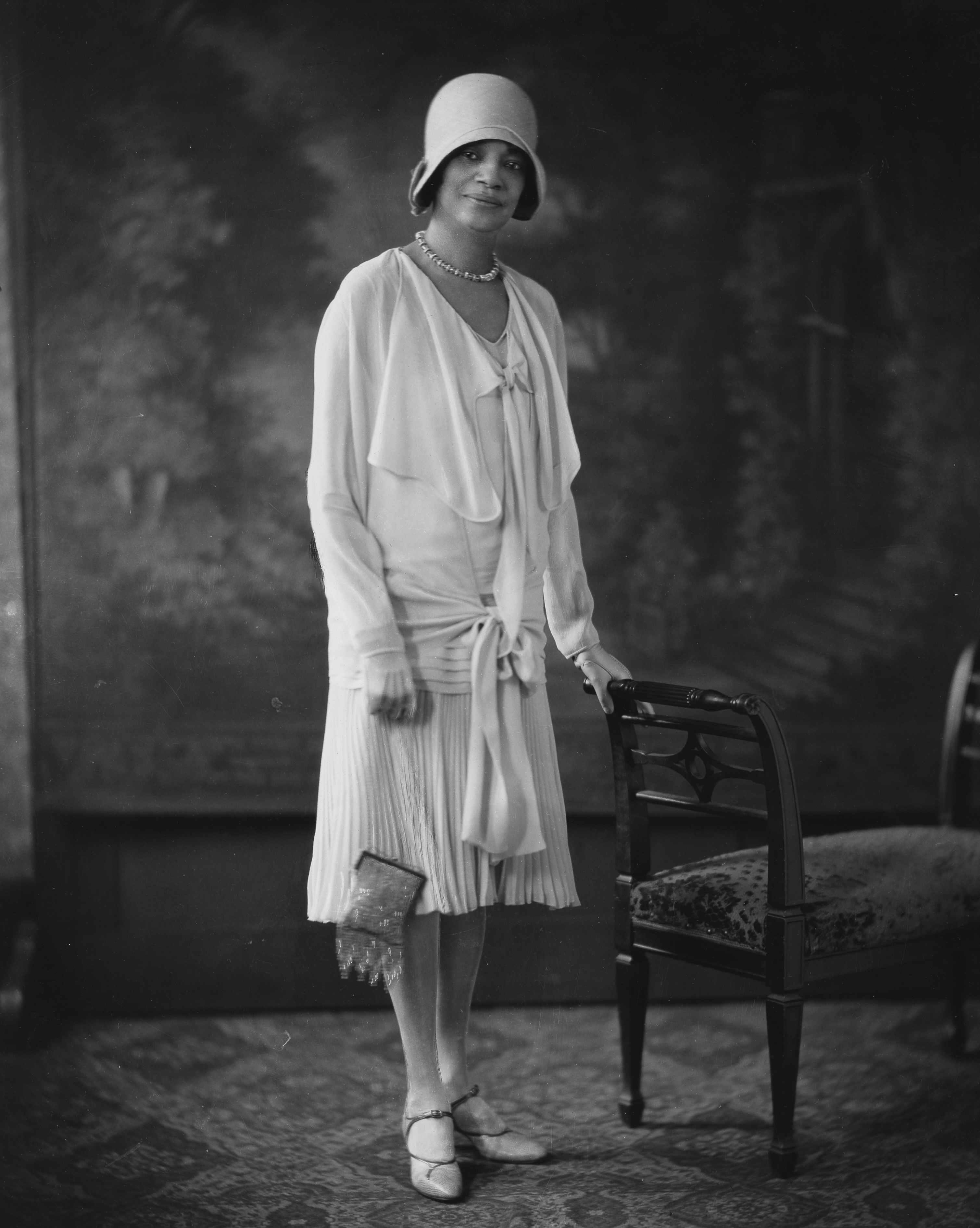 Jessie DePriest, wife of U.S. Representative from Illinois Oscar DePriest